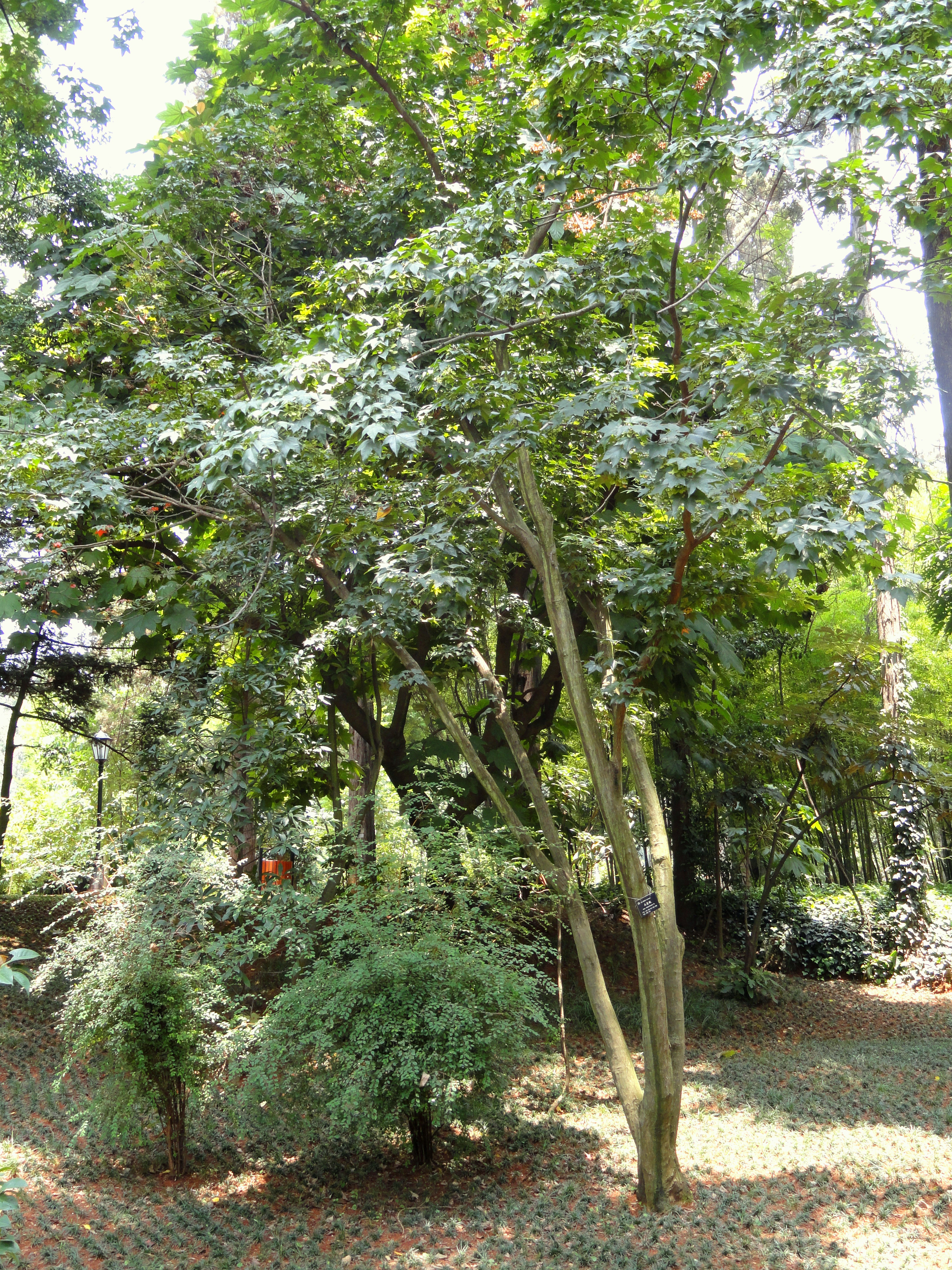 Plant specimen in the Kunming Botanical Garden, Kunming, Yunnan, China.